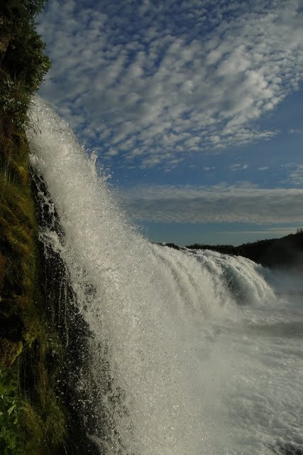 Faxifoss in Iceland